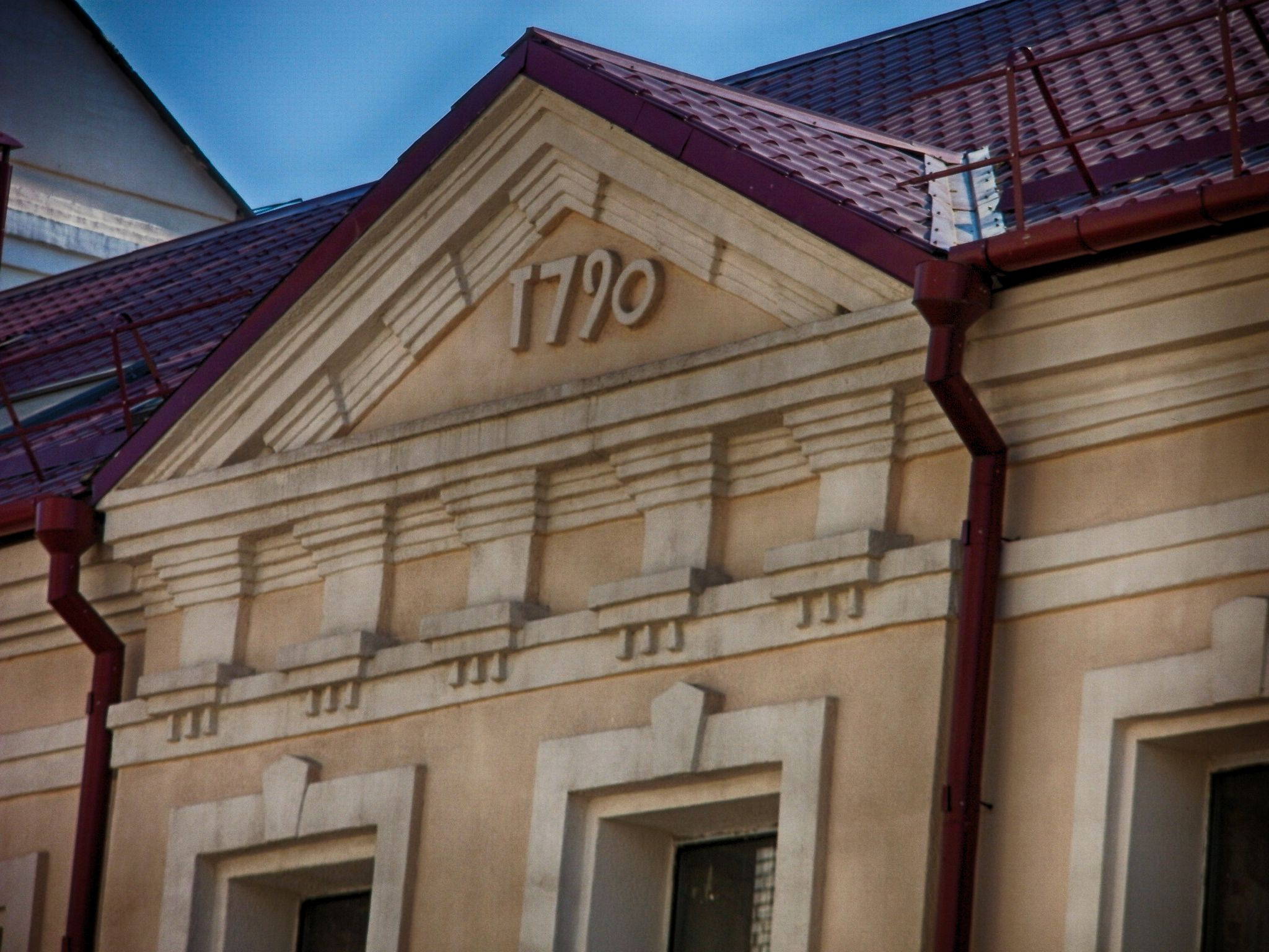 Беларуская (тарашкевіца): Будынак. г. Магілёў This is a photo of Belarusian heritage monument. Reference number: 512Г000024 ( WLM)